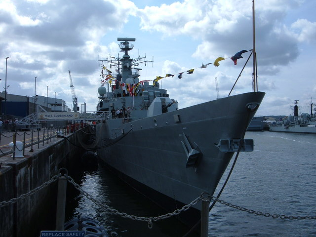 Devonport - HMS Cumberland Navy Open Day 2006